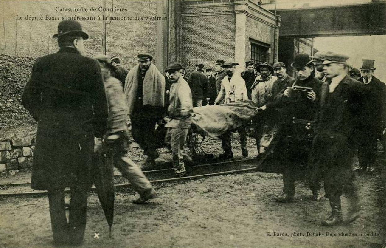 Courrières mine disaster, the tenth march 1906, in the towns of Billy-Montigny, Sallaumines, Méricourt and Noyelles-sous-Lens.